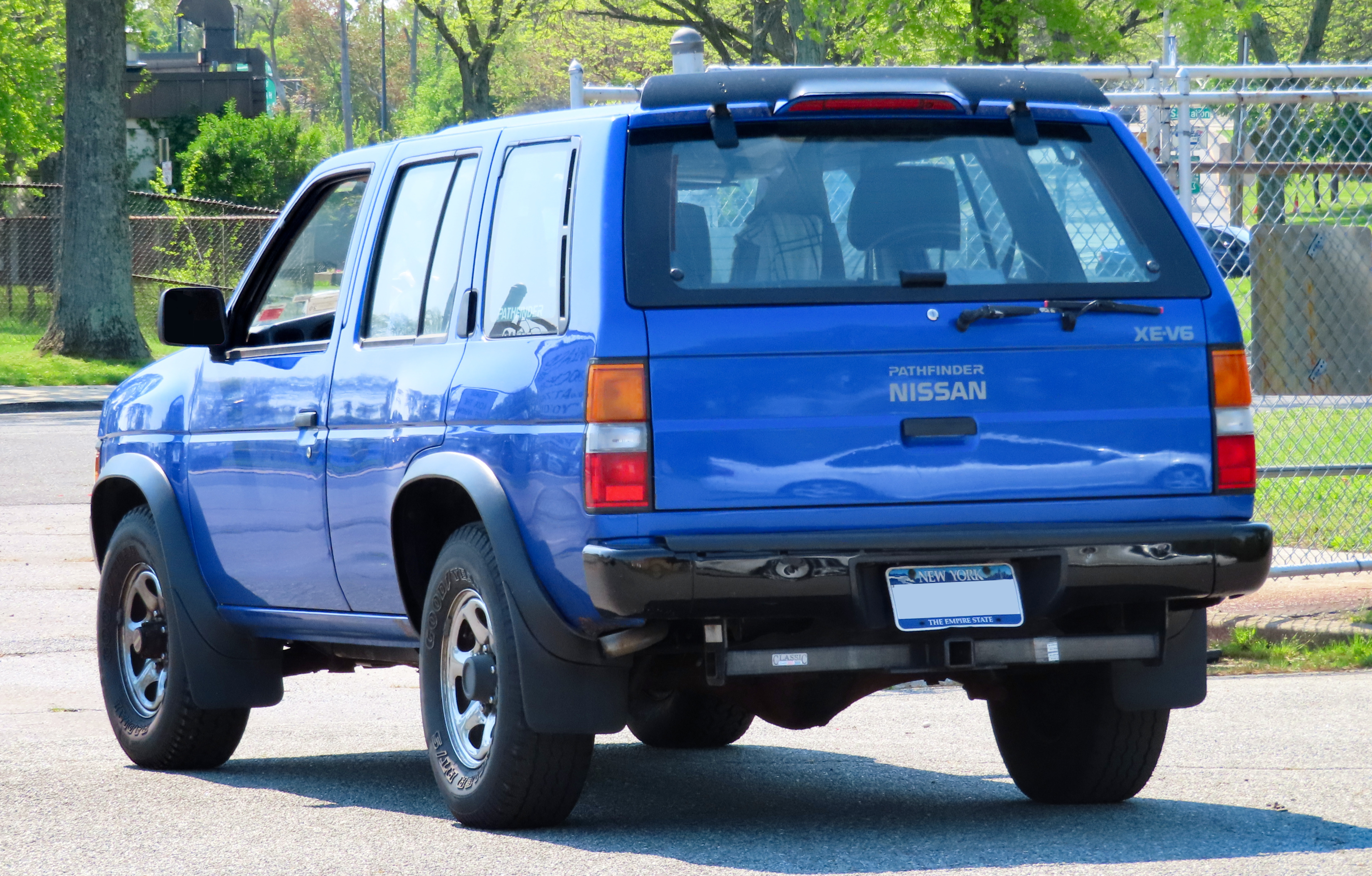 A 1995 Nissan Pathfinder SE photographed in Merrick, New York, USA